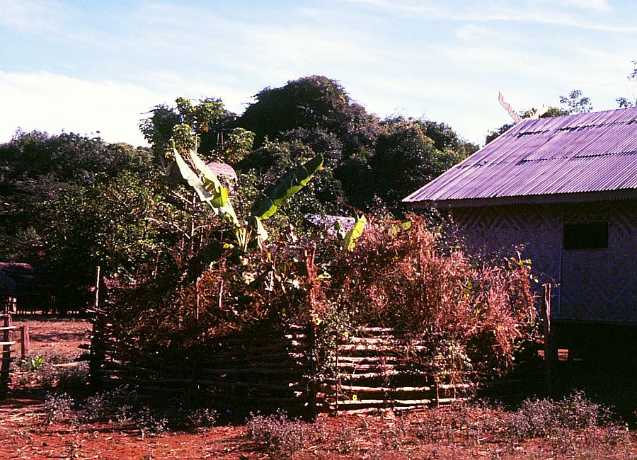 Cambodia, Kreung village near Ban Lung, sacred grove of the banana spirit (Ratanakkiri province)